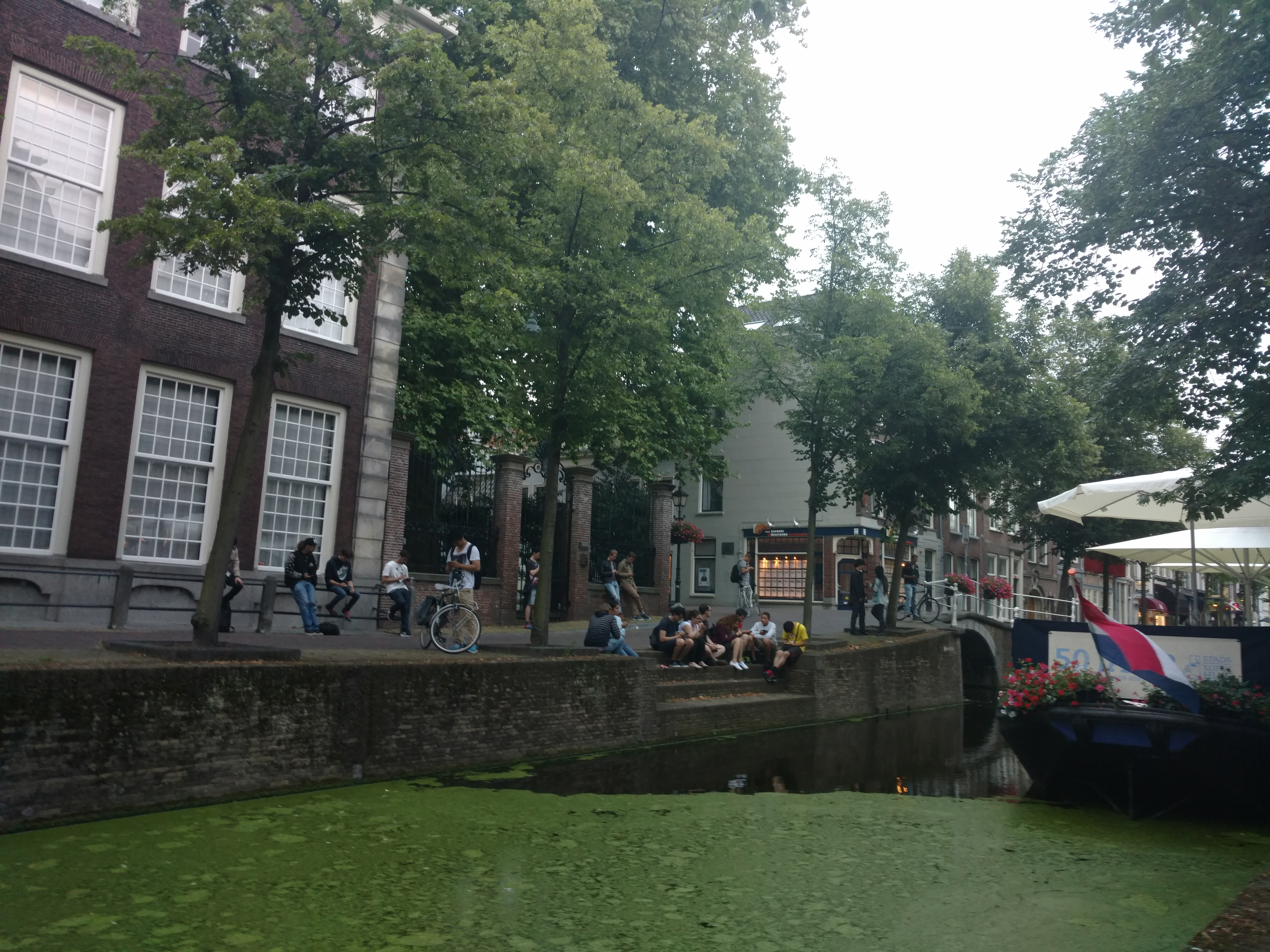 Popular spot in Delft for Pokémon Go players